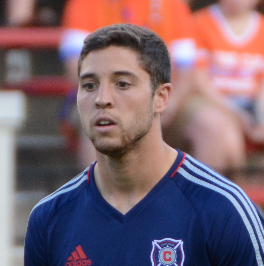 Taken at a U.S. Open Cup match between FC Cincinnati and Chicago Fire SC at Nippert Stadium in Cincinnati, Ohio on June 28, 2017.